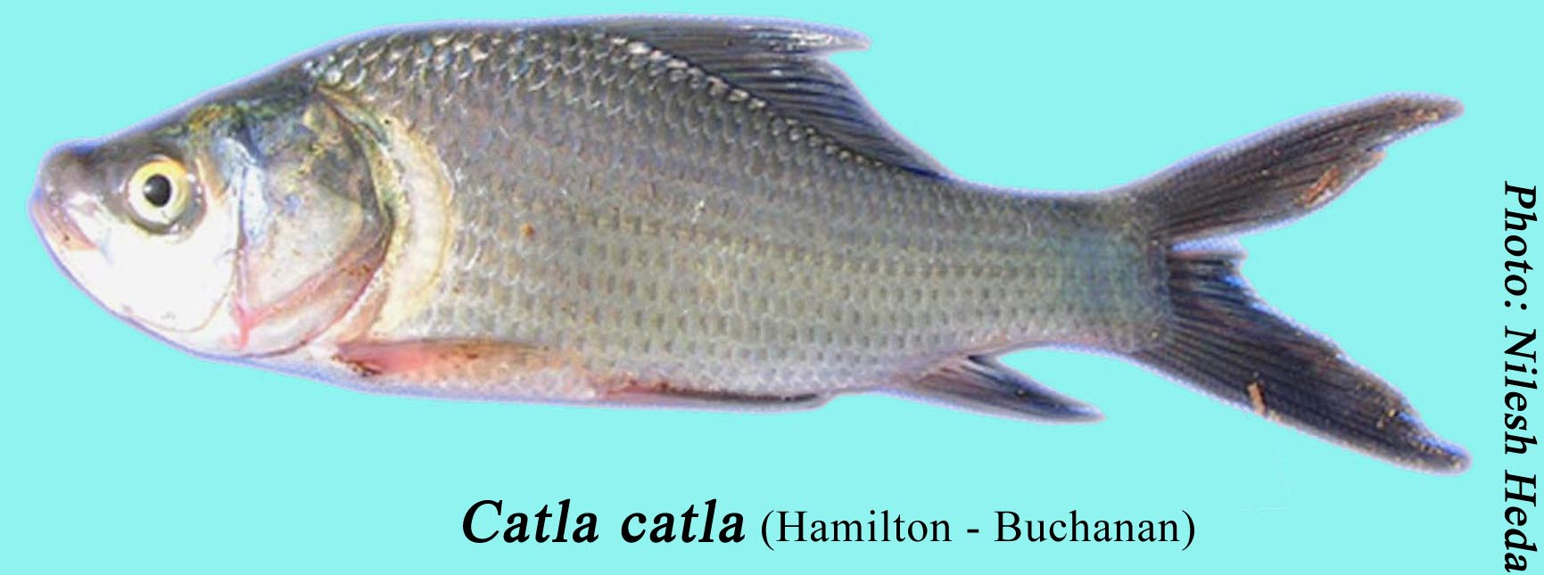 Gibelion catla (formerly Catla catla)